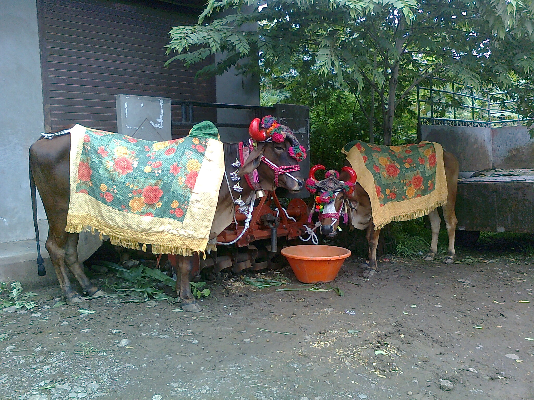 Pola (Bull's worshipping day) celebration at Chinawal village, India